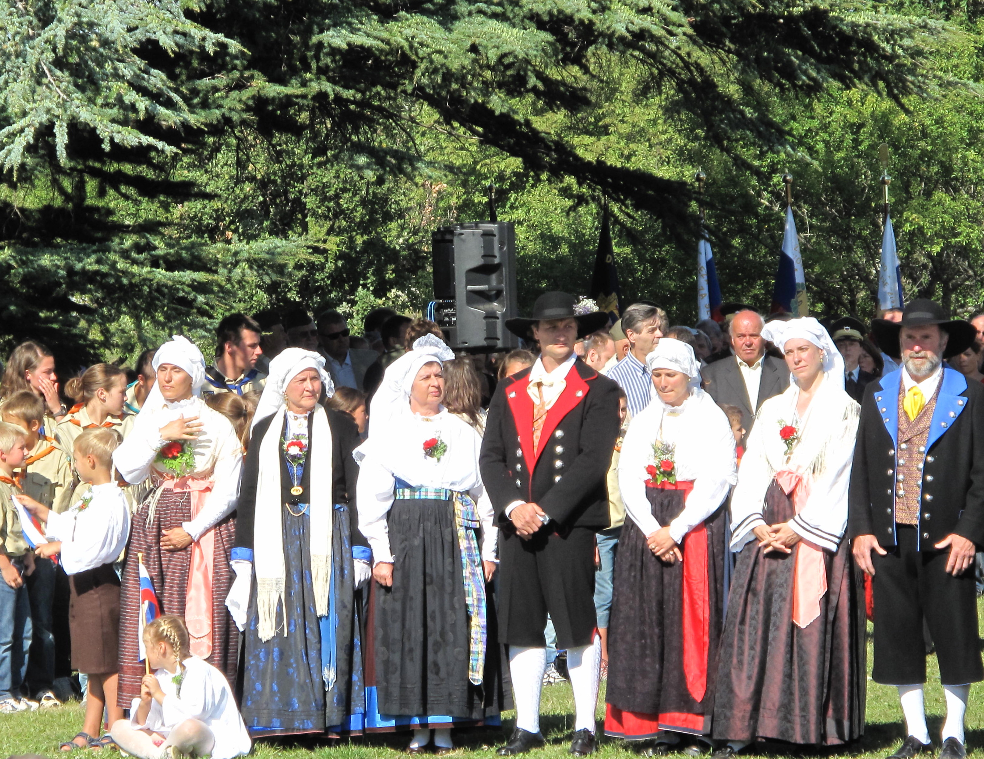 Slovenian celebration in Basovizza, Trieste, in September 2010